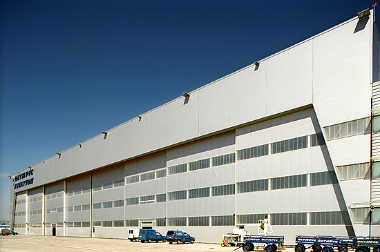 The building of "Olympic Aviation" at Athens International Airport